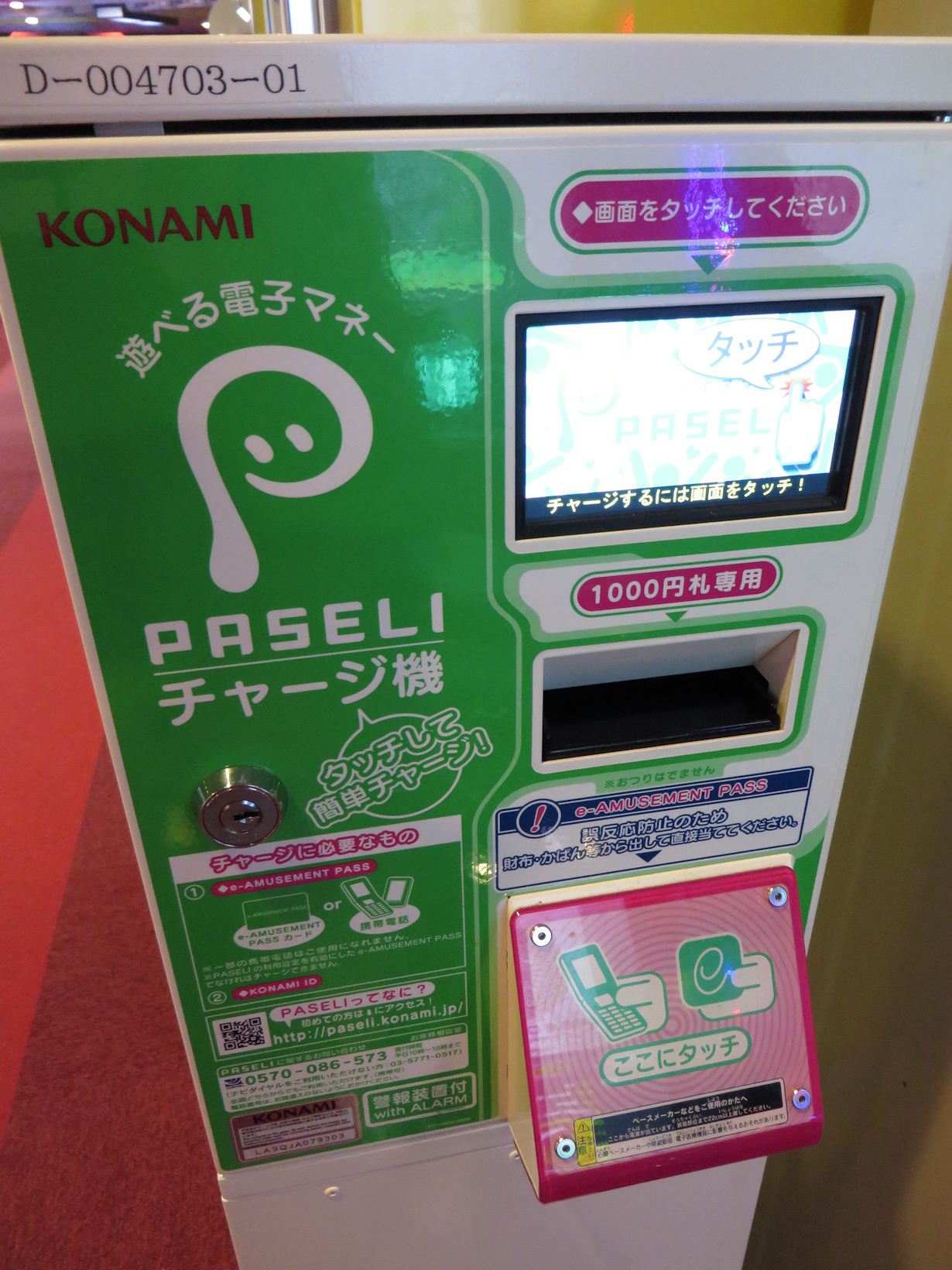 A paseli terminal machine.